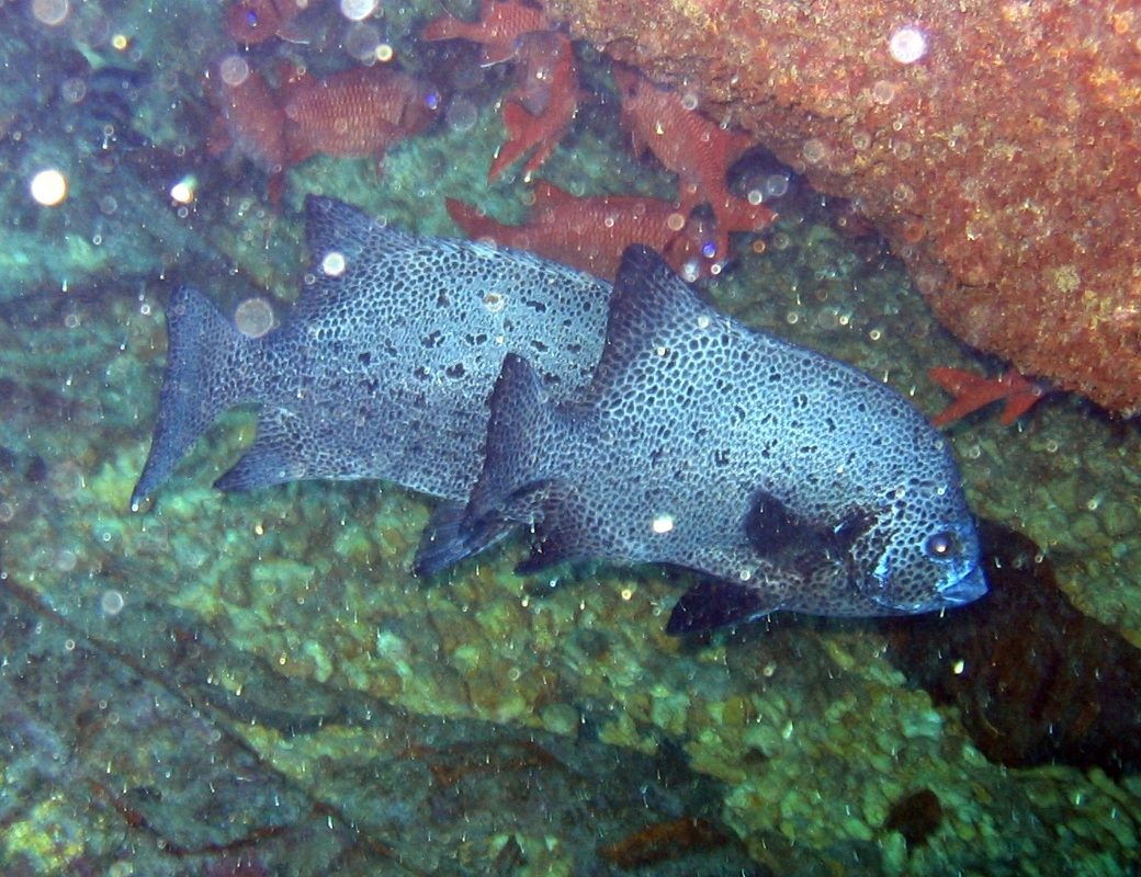 A spotted knifejaw (Oplegnathus punctatus) Image ID: reef0603, NOAA's Coral Kingdom Collection Location: Northwest Hawaiian Islands